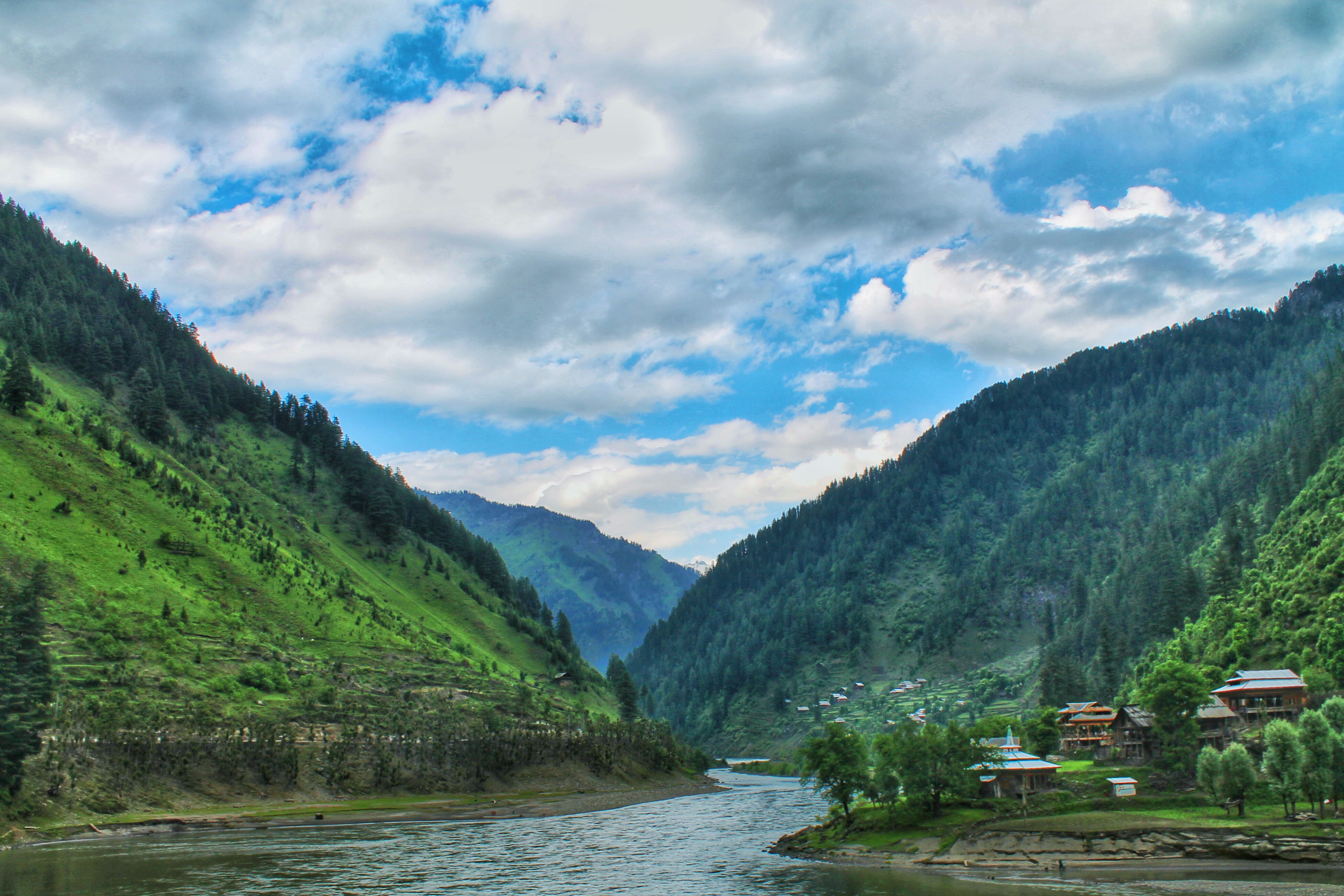 Neelum Valley, Azad Kashmir